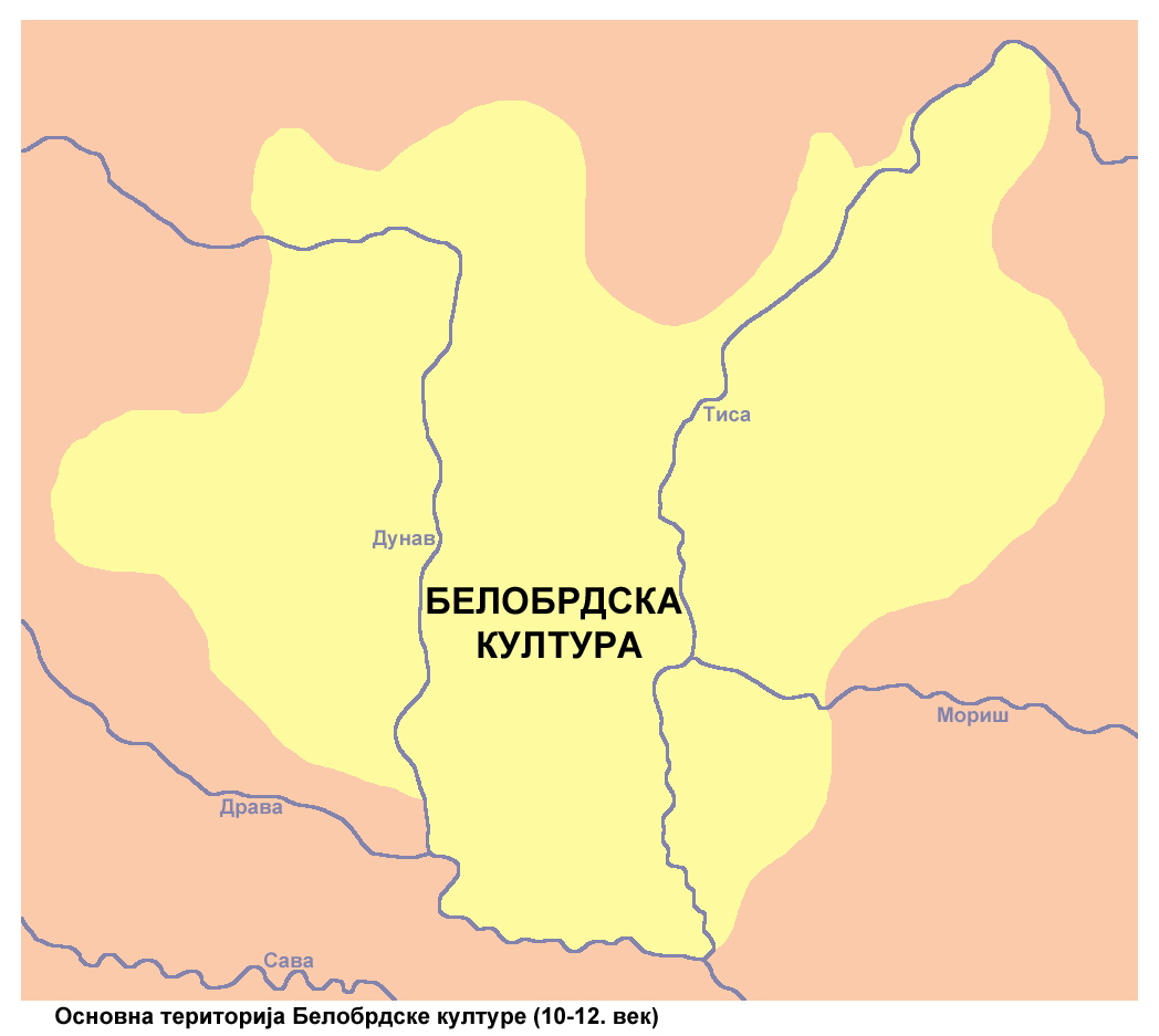 Map showing the basic territory of Bijelo Brdo culture (10th-12th century).